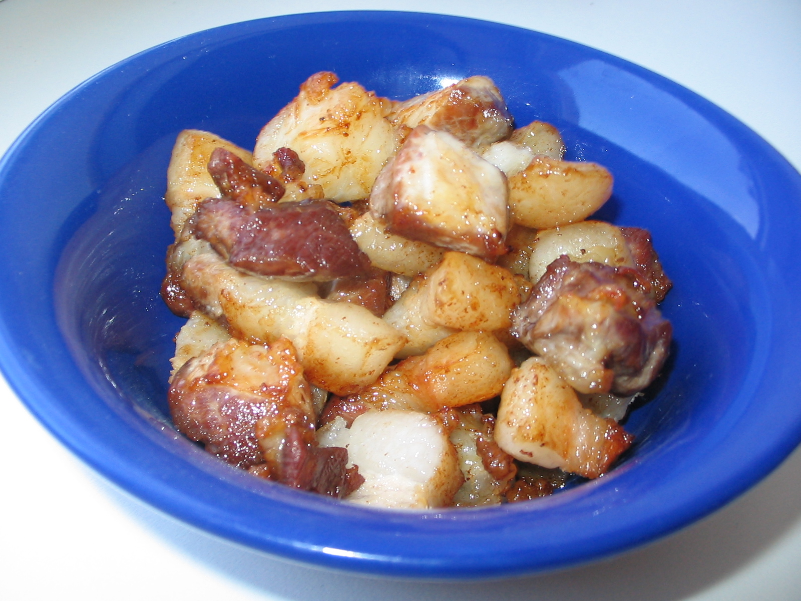 Pork rind